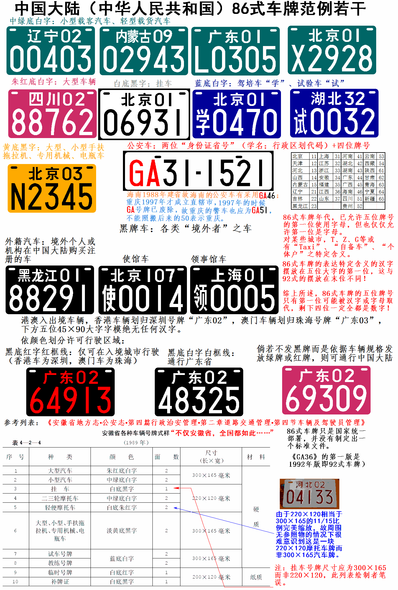 Layout and Example of China 1986-Series Plates